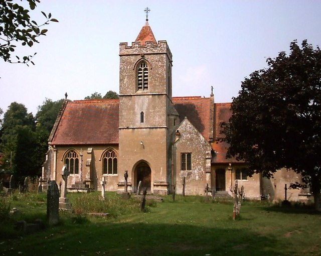 St. Saviours Church Erlestoke It was built in 1880 by G.E. Street to replace a medieval building.